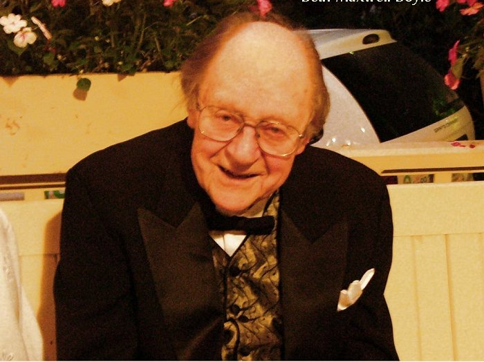 American conductor Walter Hendl at Chautauqua Institution's Amphitheater after his last guest performance with the Chautauqua Symphony Orchestra